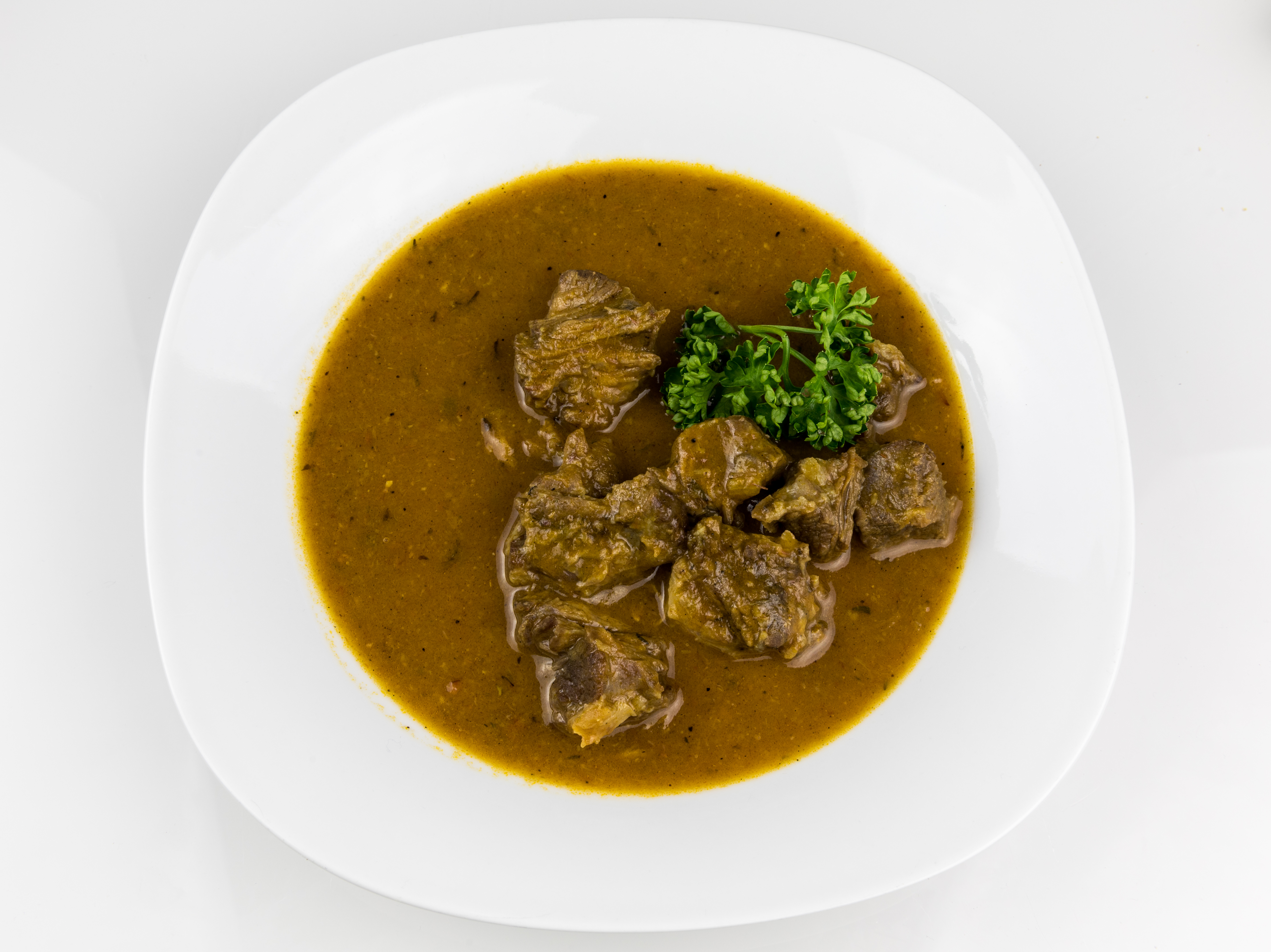 Oxtail soup